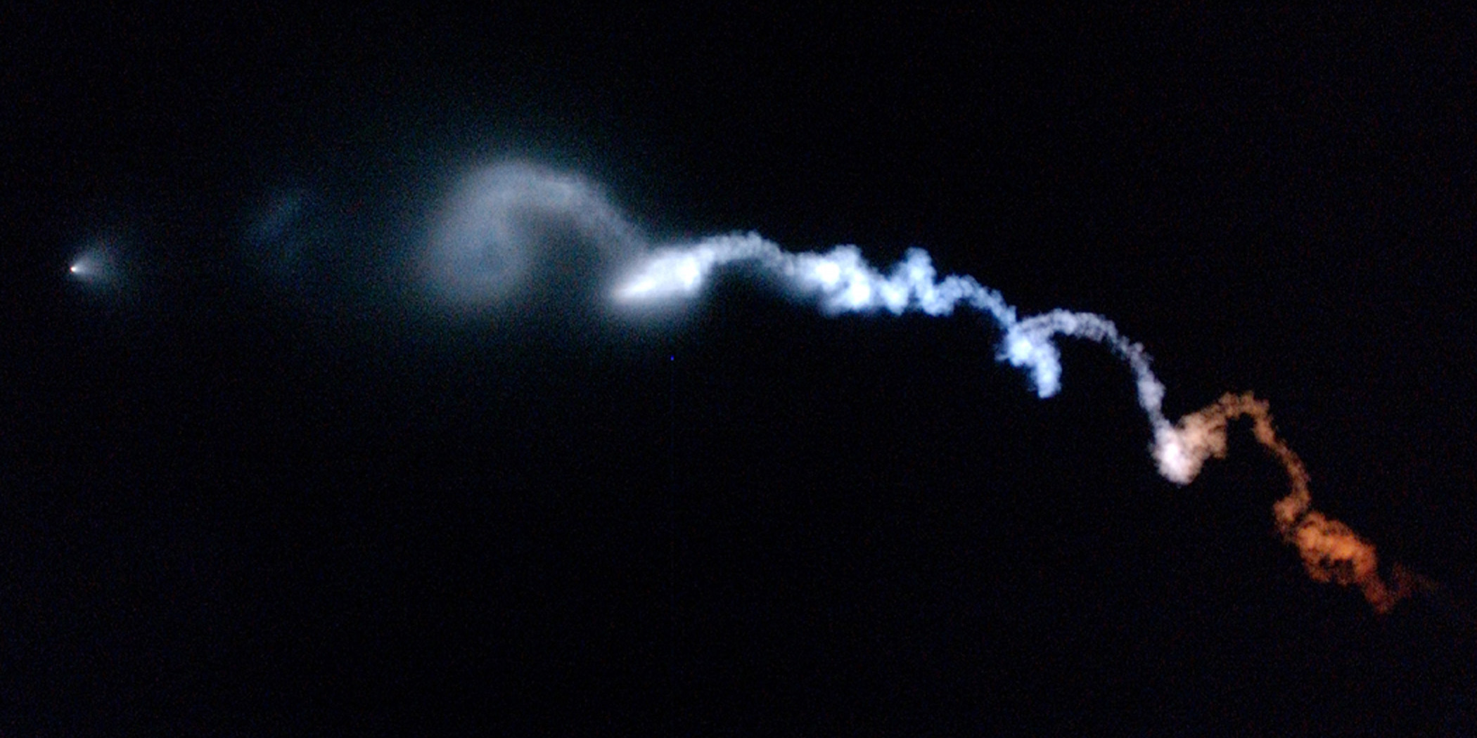 The twilight phenomenon can be seen in the wake of the Minotaur I during its departure from Space Launch Complex 8 here Sept. 22, 2005. This effect is caused by unspent fuel freezing at high altitude. The frozen particles reflect sunlight below the horizon and display different colors against a dark background.